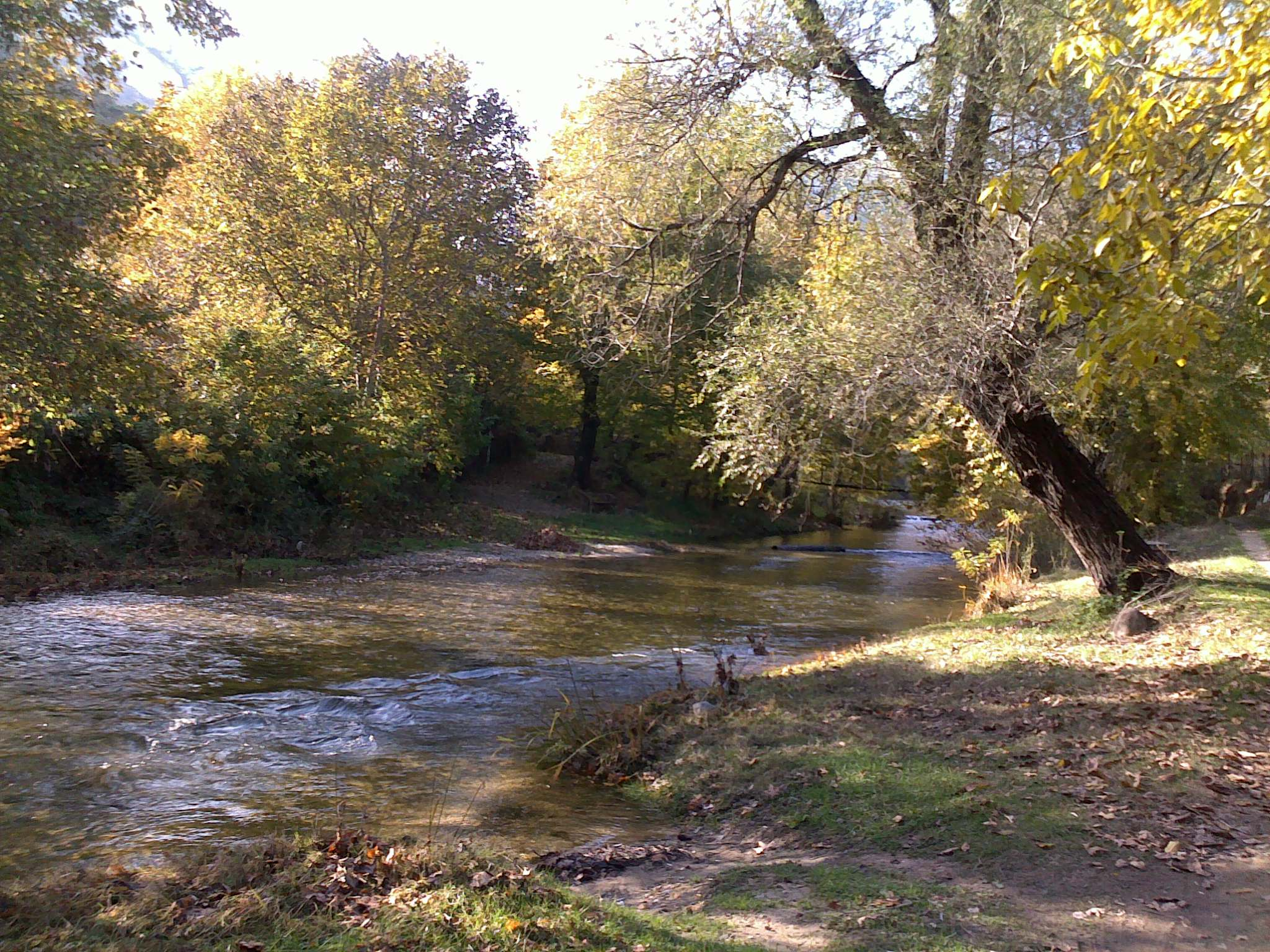 River Babuna near Veles, Macedonia